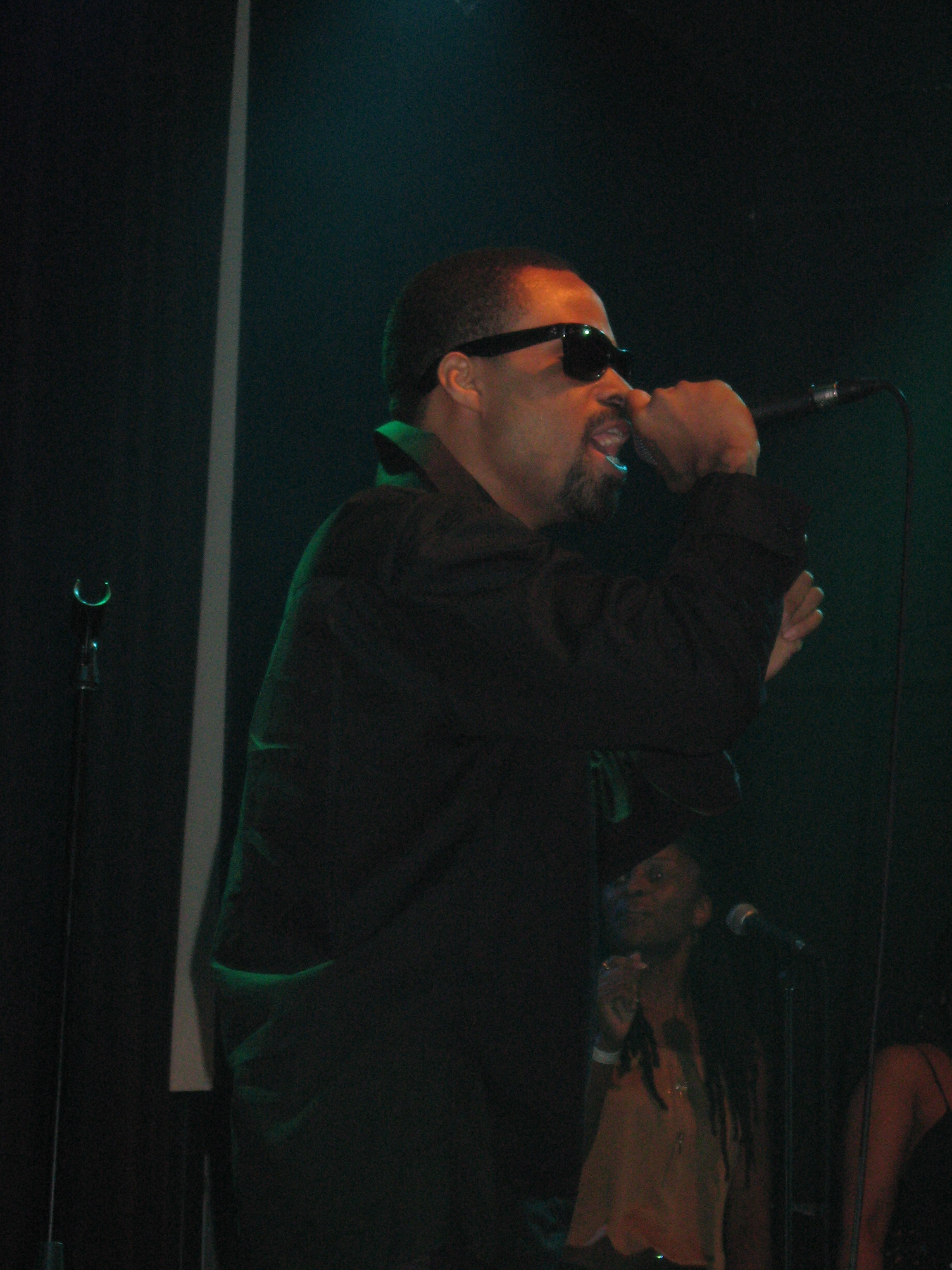 The soul singer Bilal